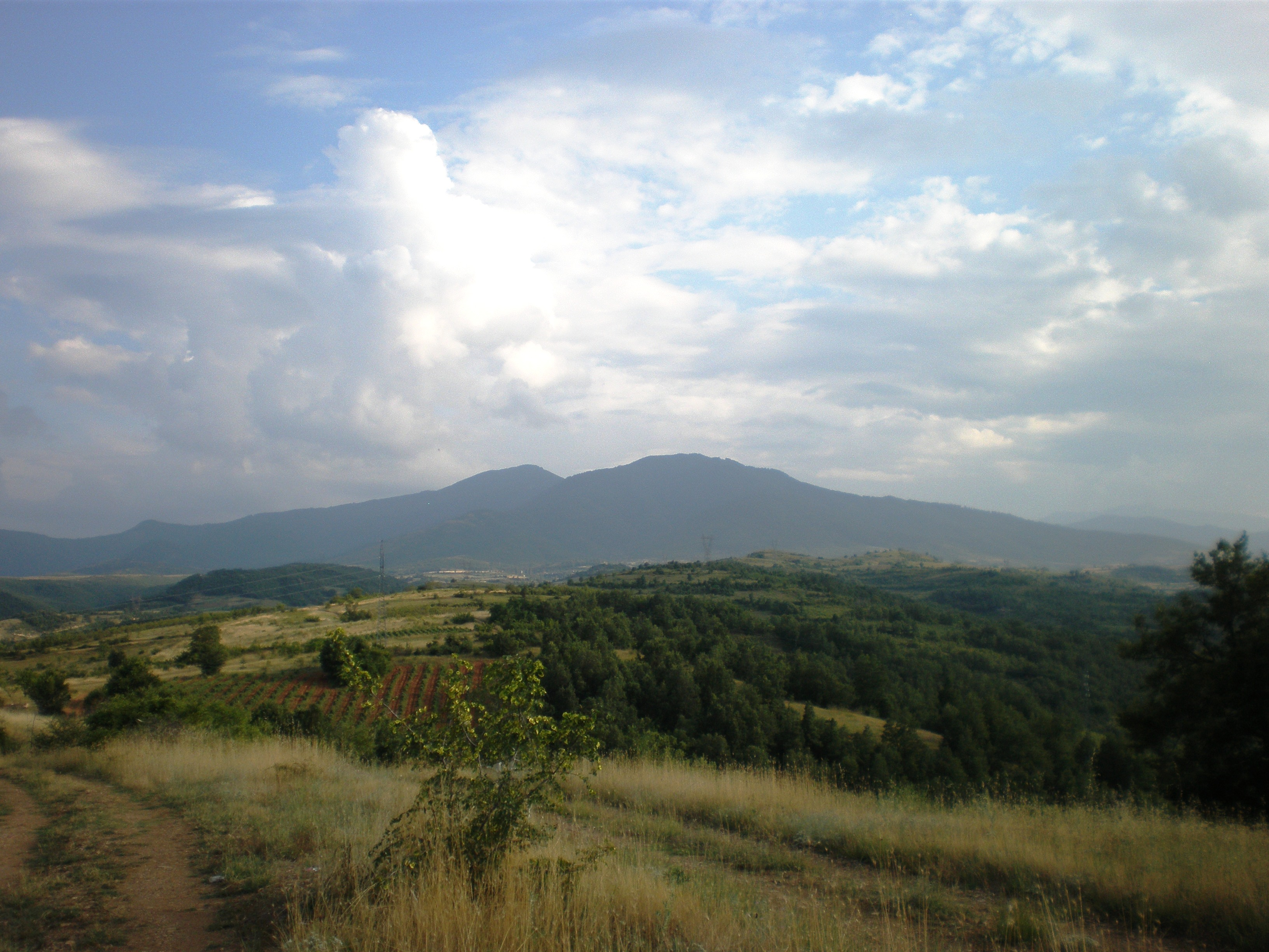 Kitka Mountain near Skopje, Macedonia